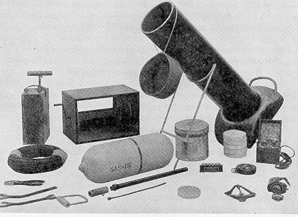 Photograph showing components of Livens Projector, World War I.